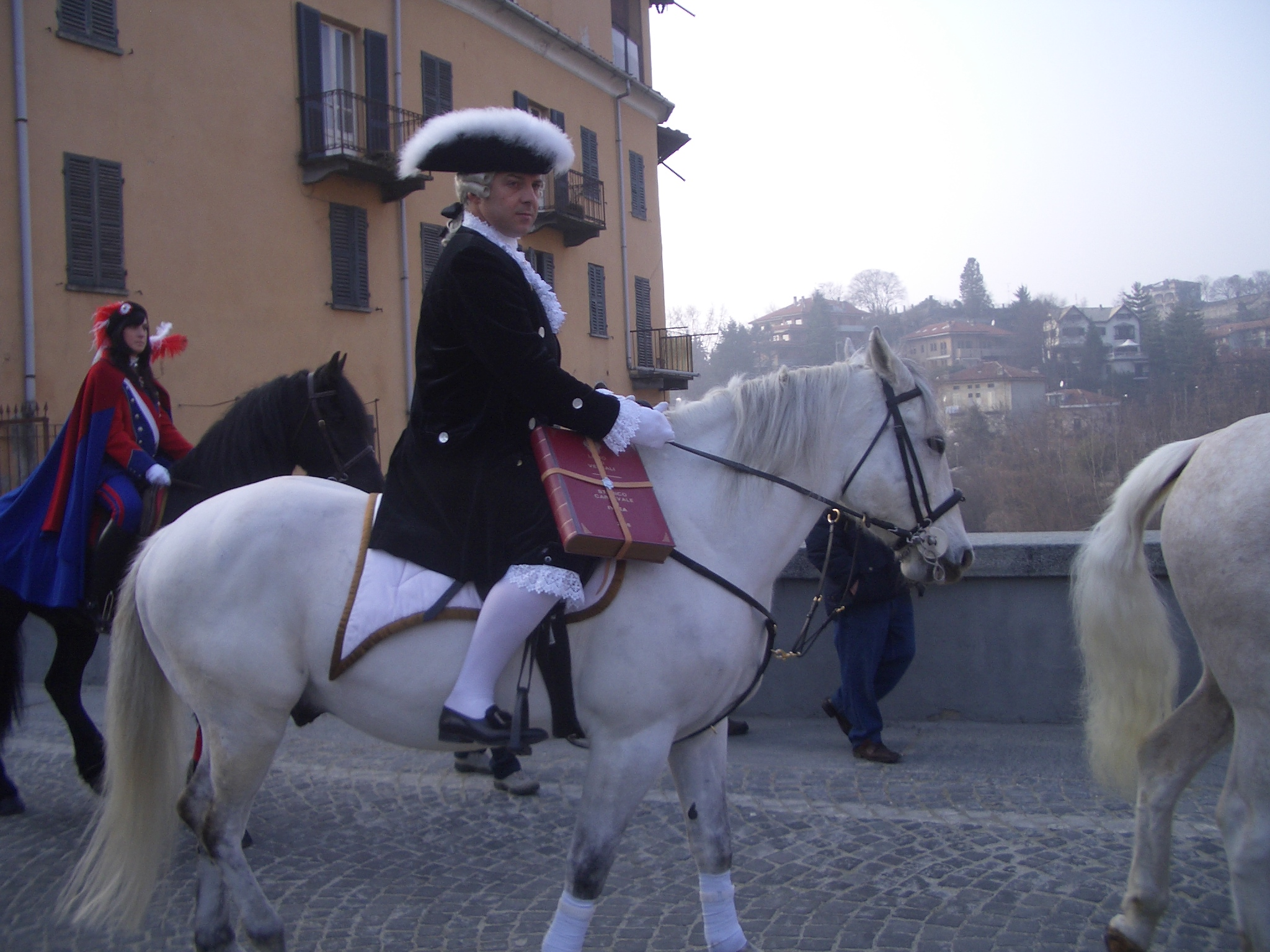 Carnival of Ivrea, The character of Sostituto Gran Cancelliere (Vice High Chancellor)